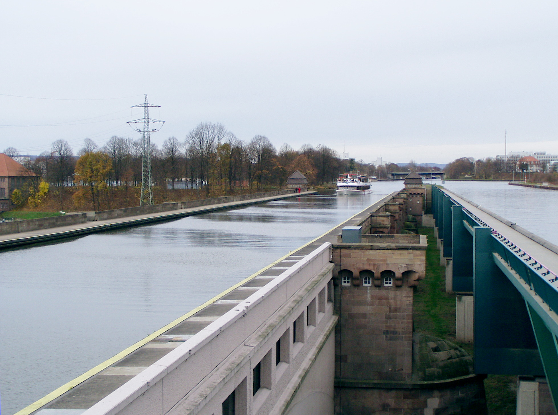 Mittellandkanal (engl. Midland Canal) near Minden, Germany